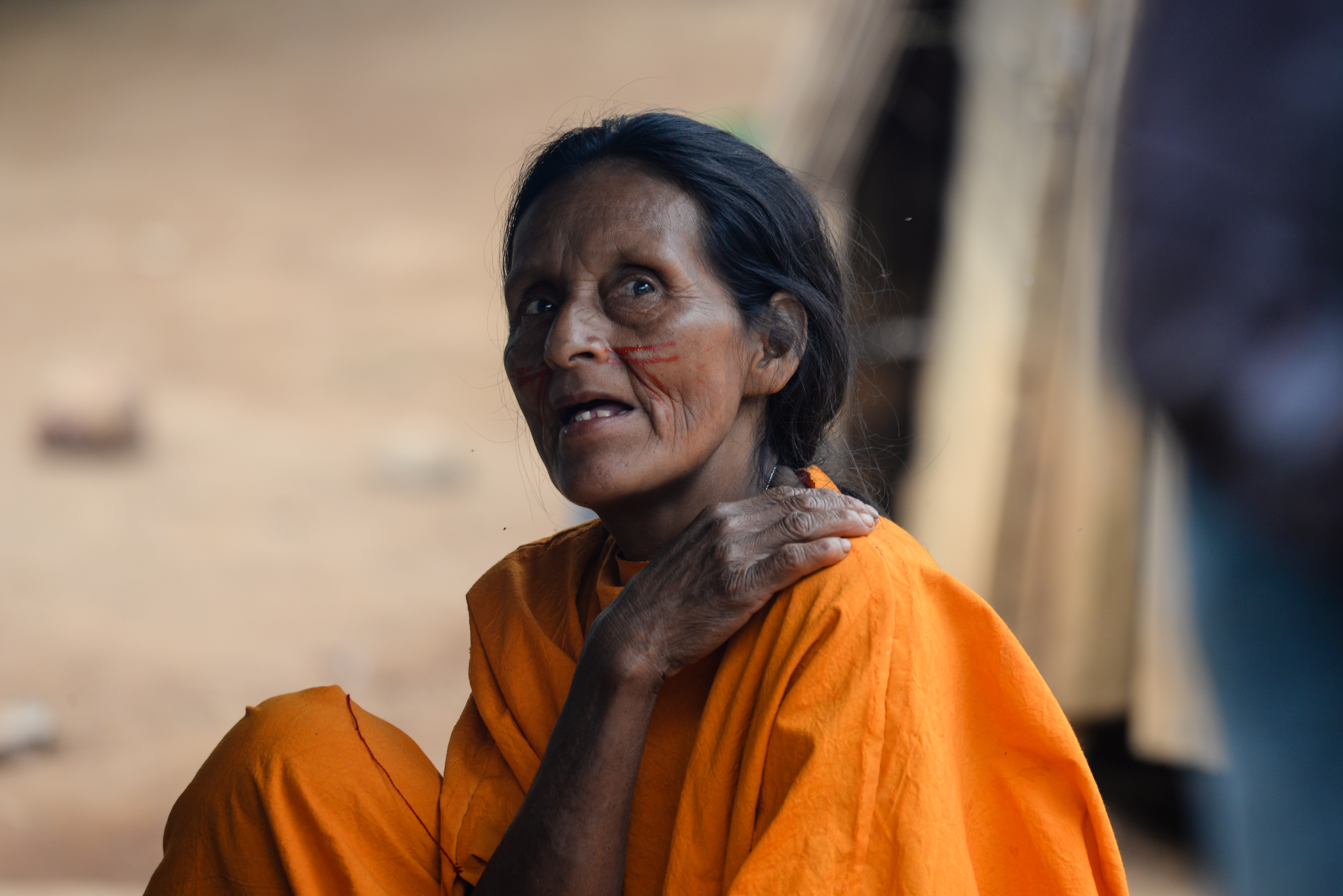 This image is of a Machiguenga woman who is dressed in traditional garb. Photo taken in the Pangoa province of Peru.